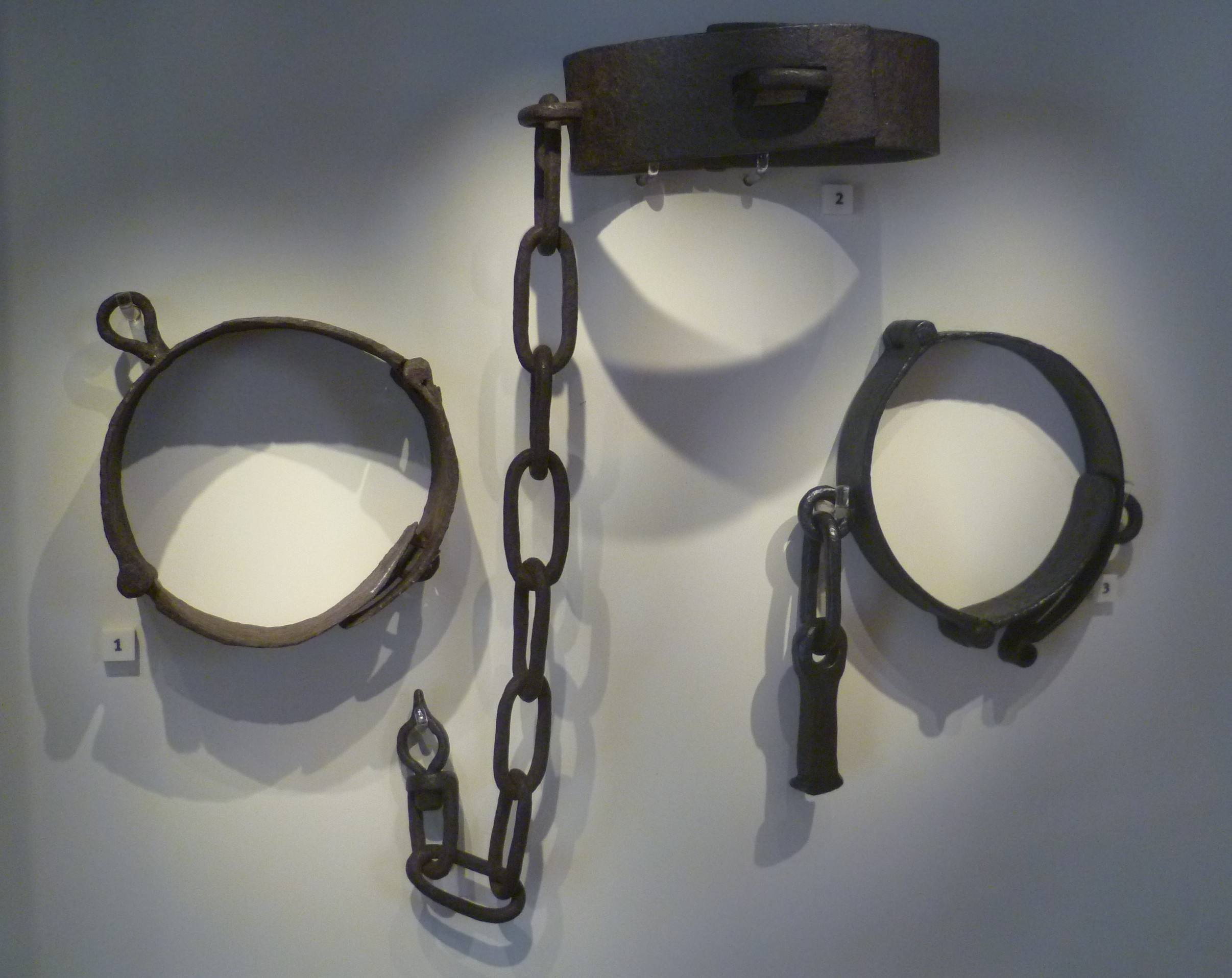 Iron collars of uncertain date, formerly used throughout Scotland as a method of public punishment for relatively minor civil and ecclesiastical offences. They would have been fastened to the wall of a church. These specimens from the Trinity district of Edinburgh are displayed in the National Museum of Scotland.